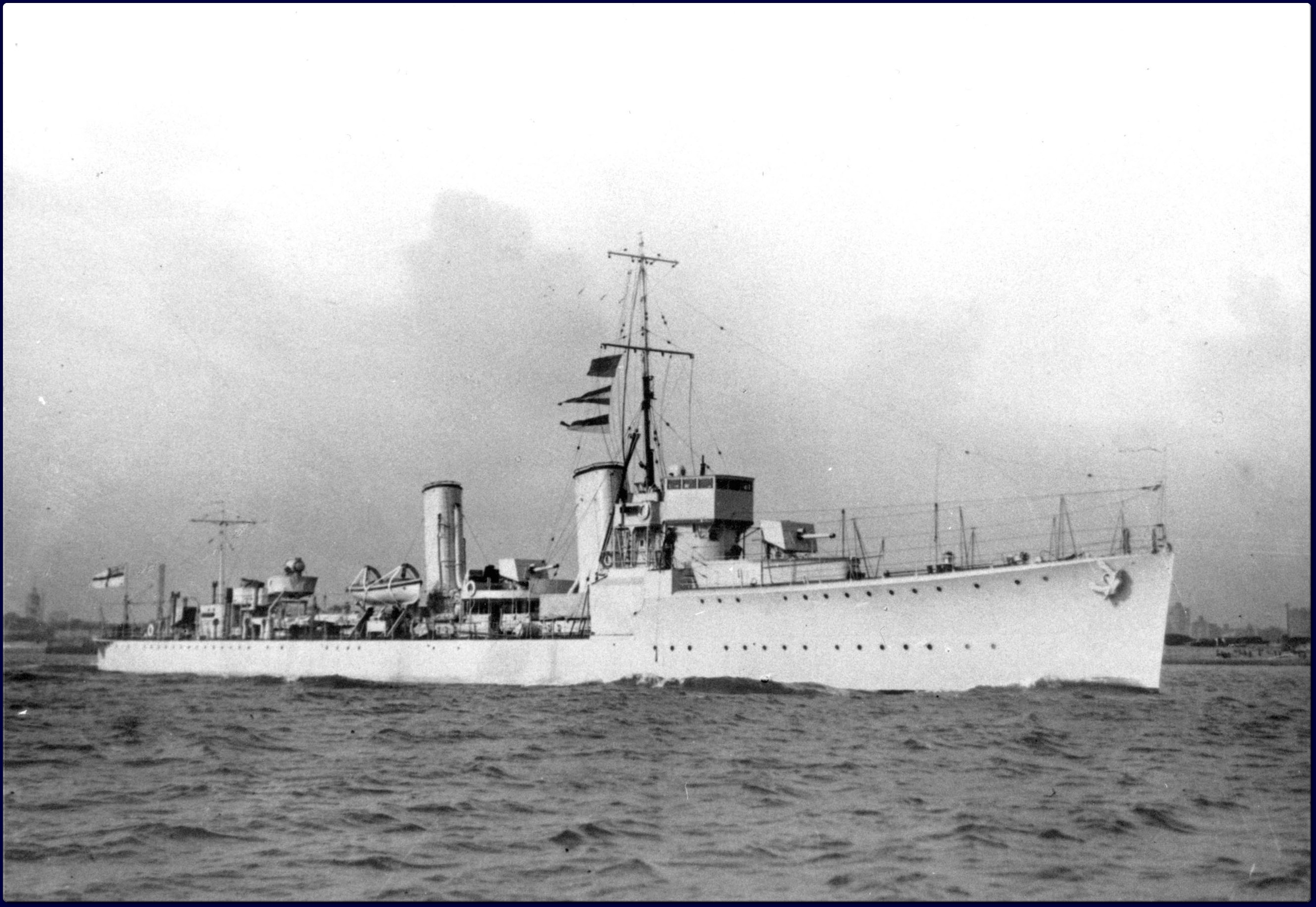 Photograph of Canadian S class destroyer HMCS Vancouver (F6A) (formerly HMS Toreador).